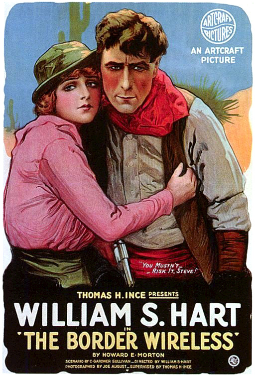 Poster from the American western film The Border Wireless (1918).